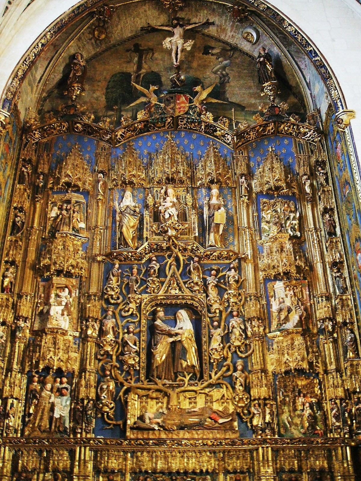 Retablo gótico hispano-flamenco de la Capilla de Santa Ana o de la Concepción, en la Catedral de Burgos (España), obra de Gil de Siloé y pintado por Diego de la Cruz (s-XV)